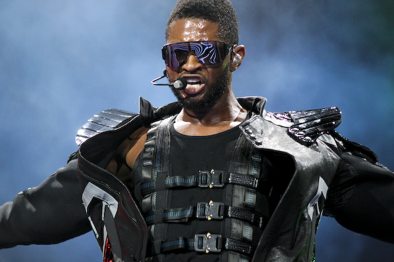 Usher @ Toyota Center - Houston, TX OMG Tour